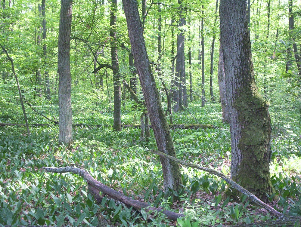 Forest in nature reserve Dąbrowa Radziejowska, with Convallaria majalis growing, Poland.